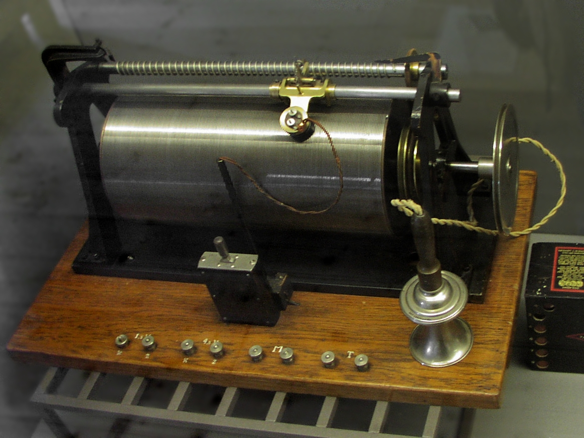 Magnetic wire recorder, invented by Valdemar Poulsen, 1898. It is exhibited at Brede works Industrial Museum, Lingby, Danmark.